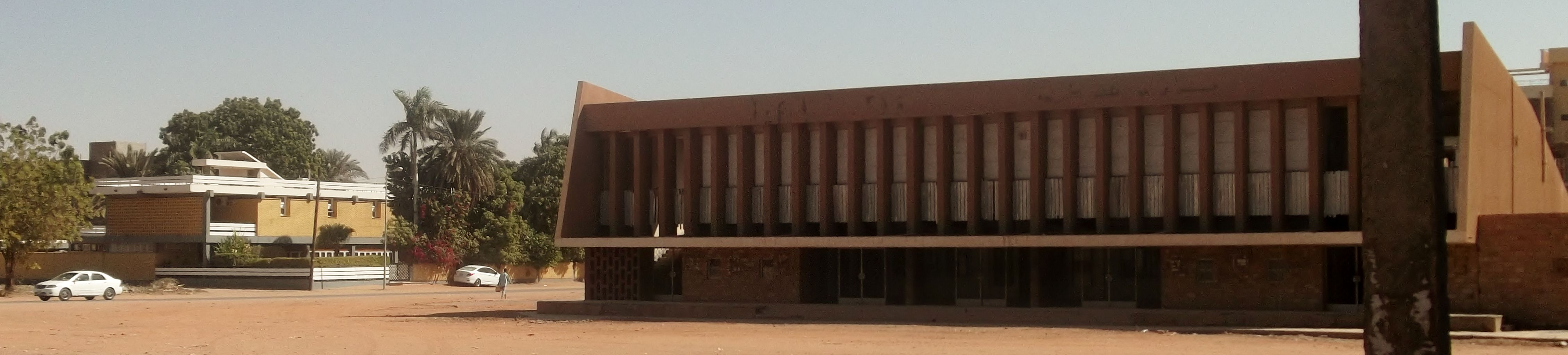 Alsafia Cinema– Khartoum Bahri – Sudan